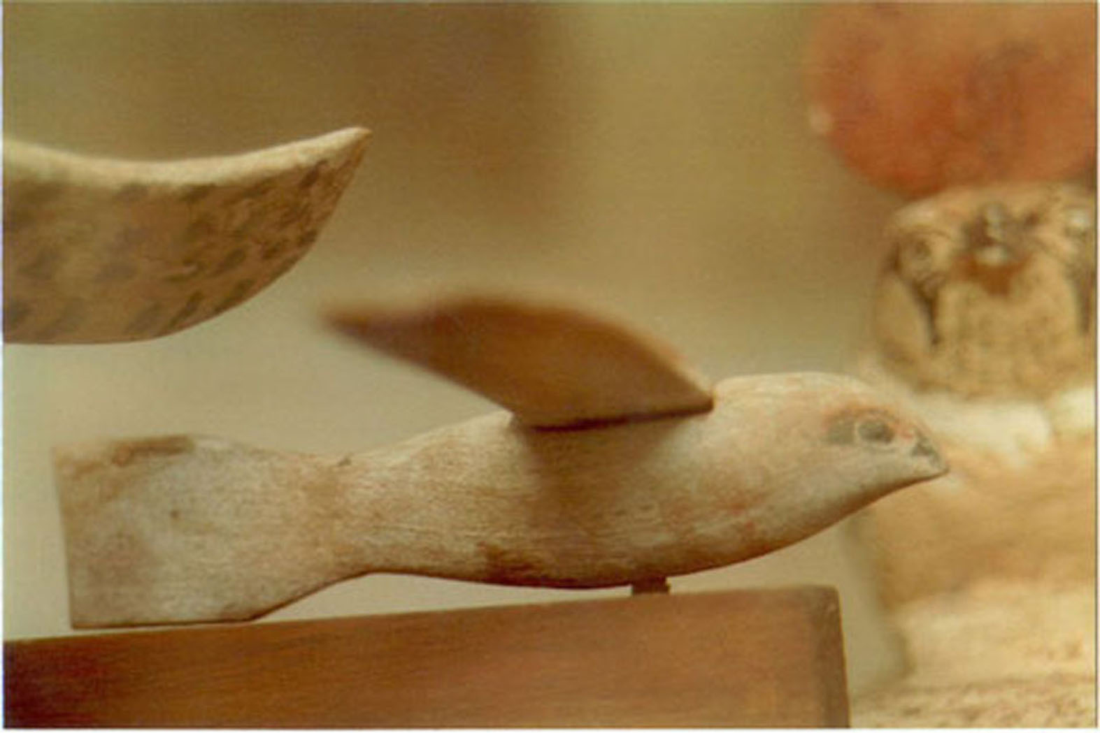 side view of the glider model of Saqqara-the model resembles a bird but with vertical tail, no legs and straight wings